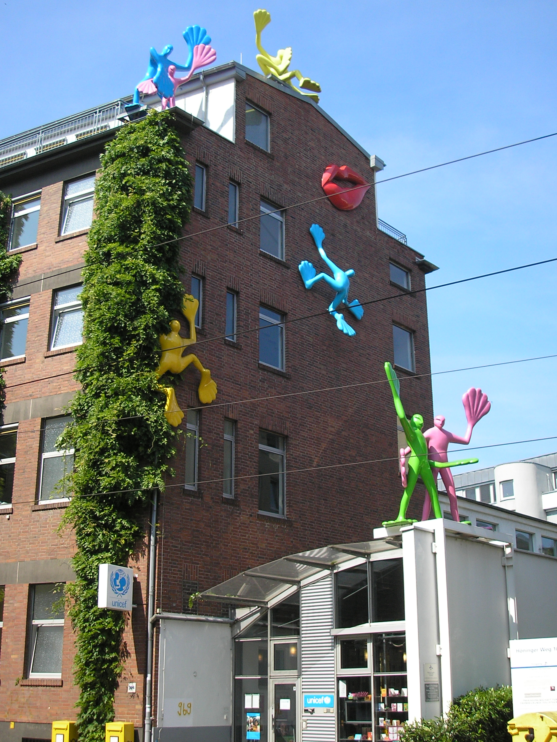 UNICEF, Cologne